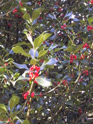 Ilex_aquifolium in turó de Morou, Massís del Montseny, la Selva, Catalonia